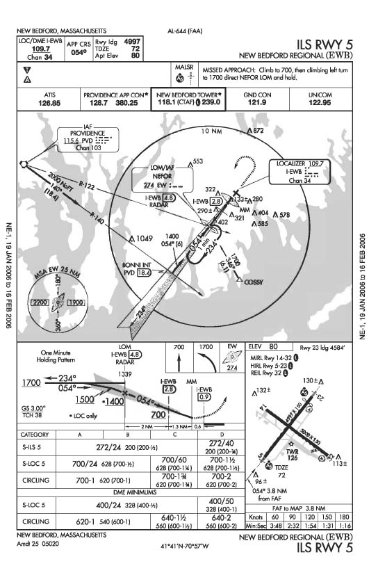 ILS 5 instrument approach plate for New Bedford Regional Airport (KEWB).